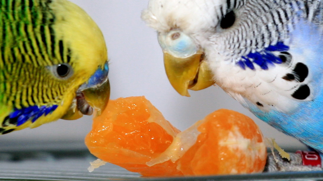 Captive Budgerigars, Melopsittacus undulatus eating a tangerine segment.